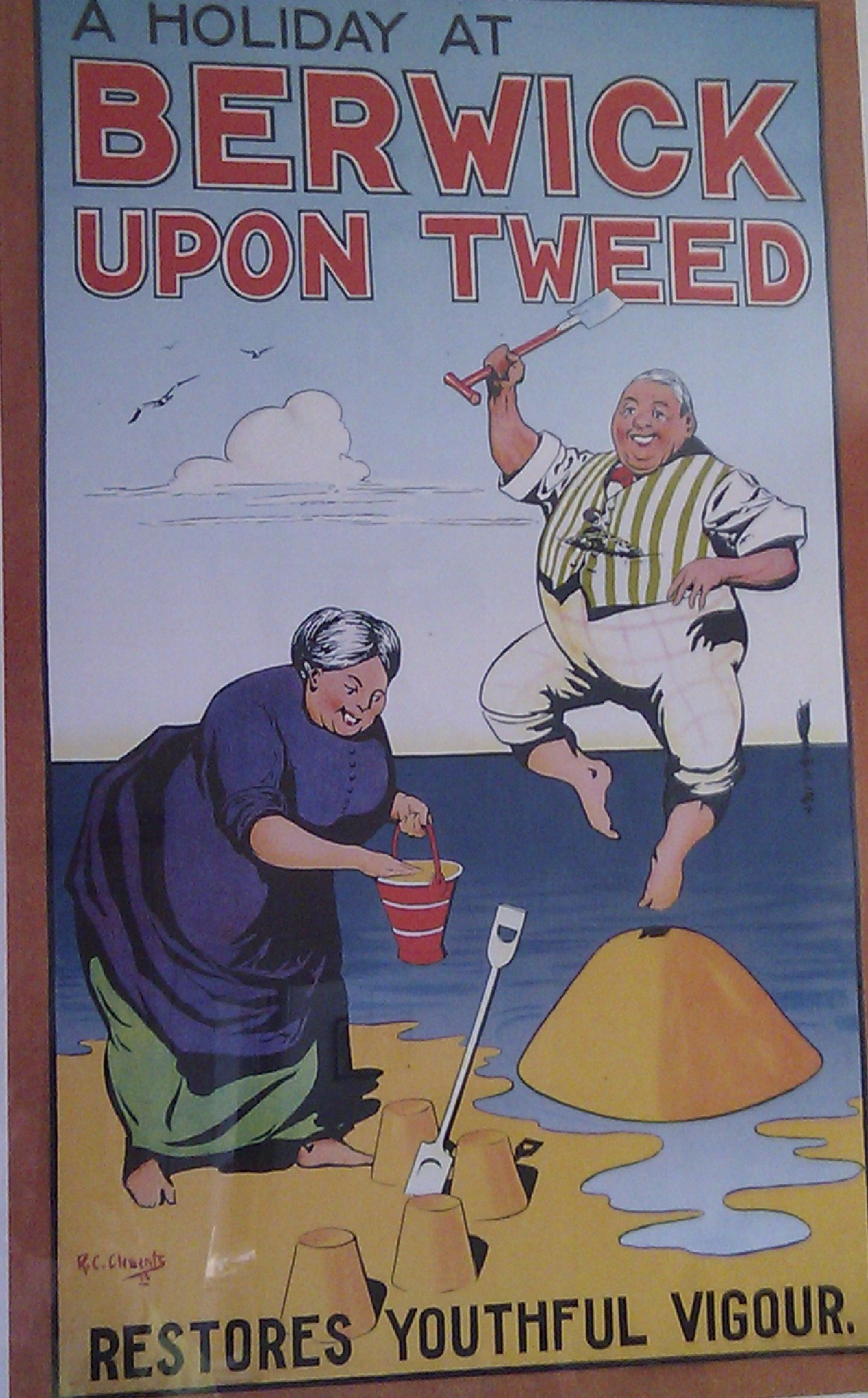 Holiday at Berwick-upon-Tweed poster